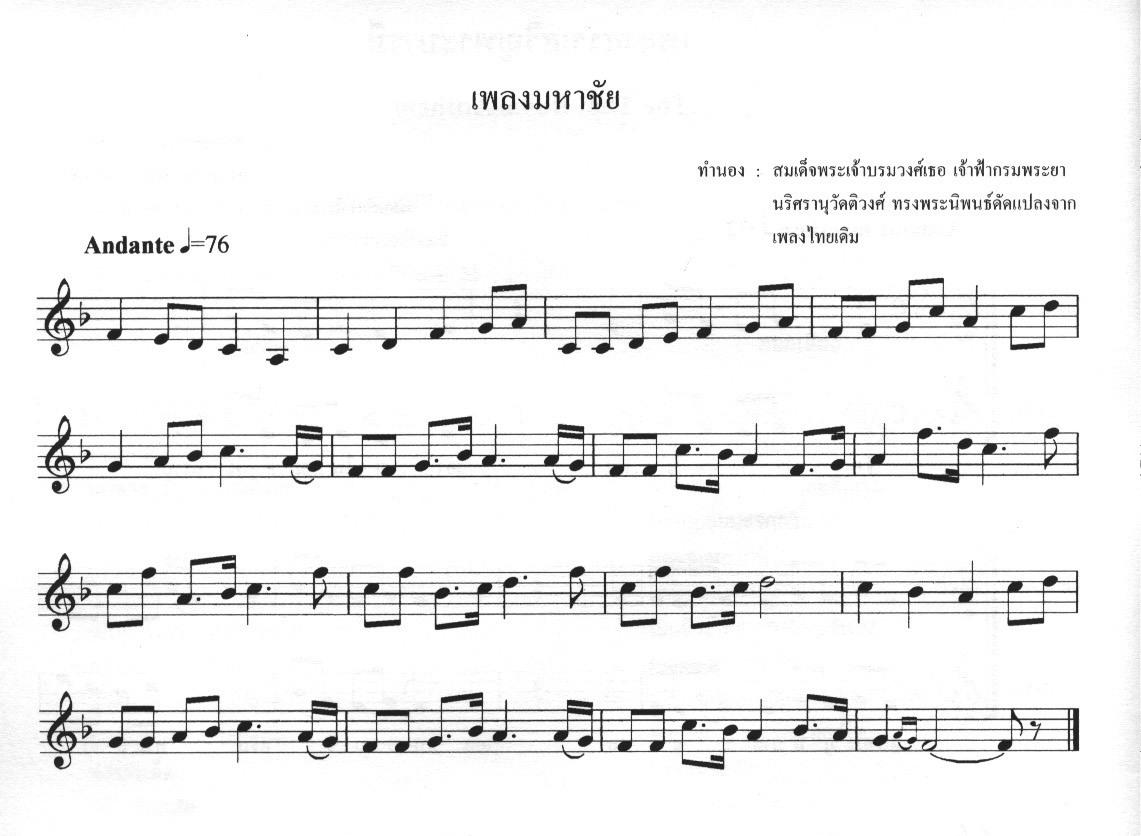 Maha Chai Sheet Music - Official version since 2004